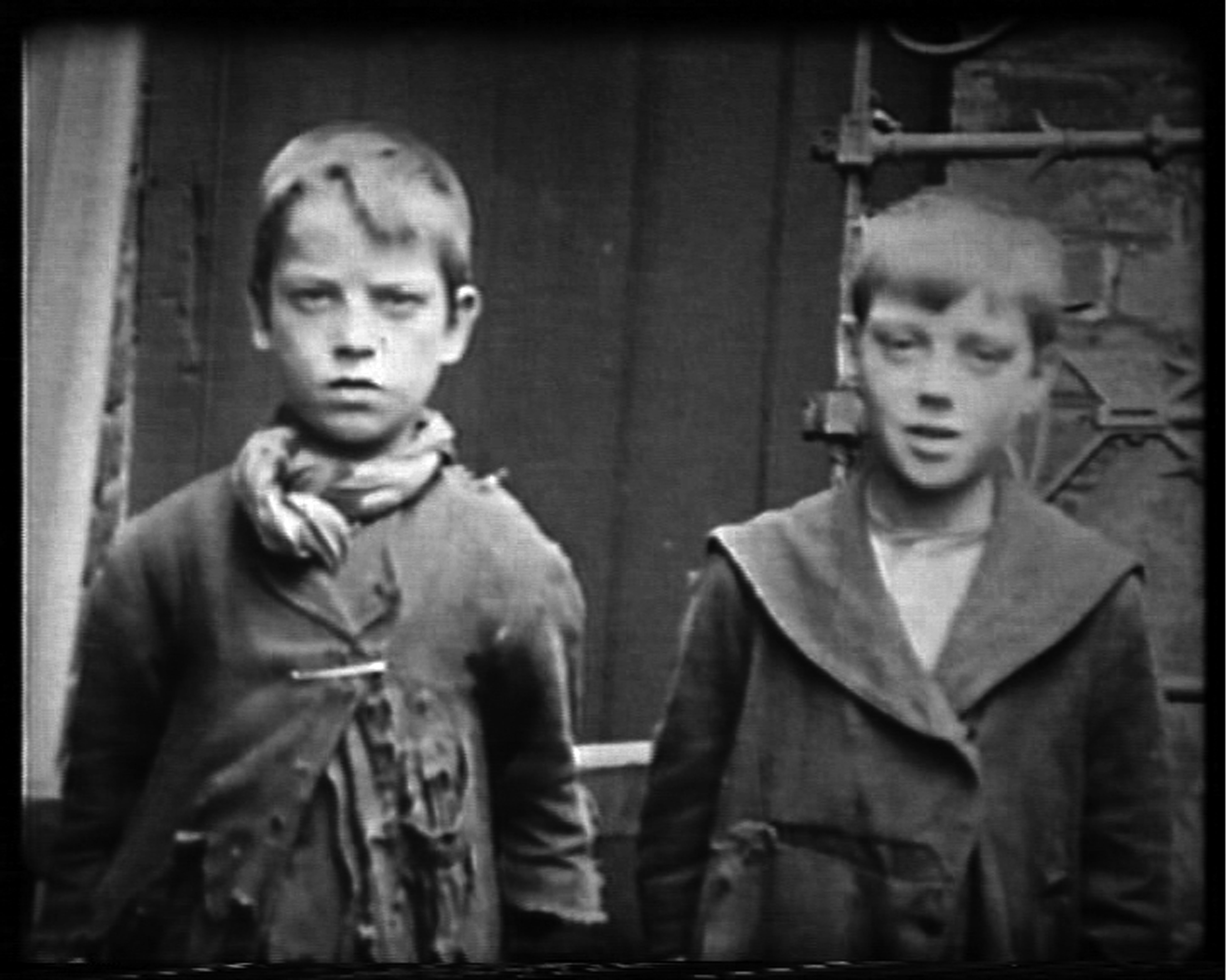 George Oliver (left) and Frederick James Hall, the first boys to be admitted to The Children's Home – the original name for Action for Children – in 1869